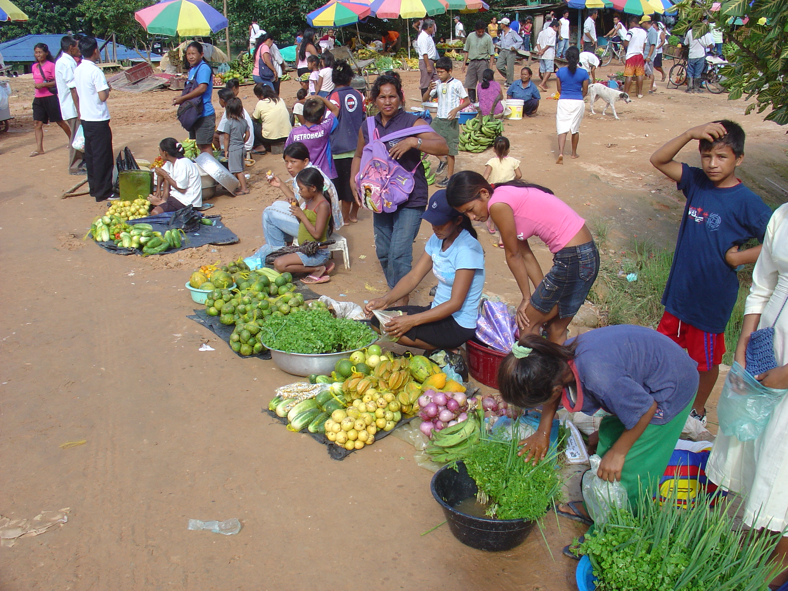 Local market at the shore of the Amazon river, Department of Amazonas, Colombia